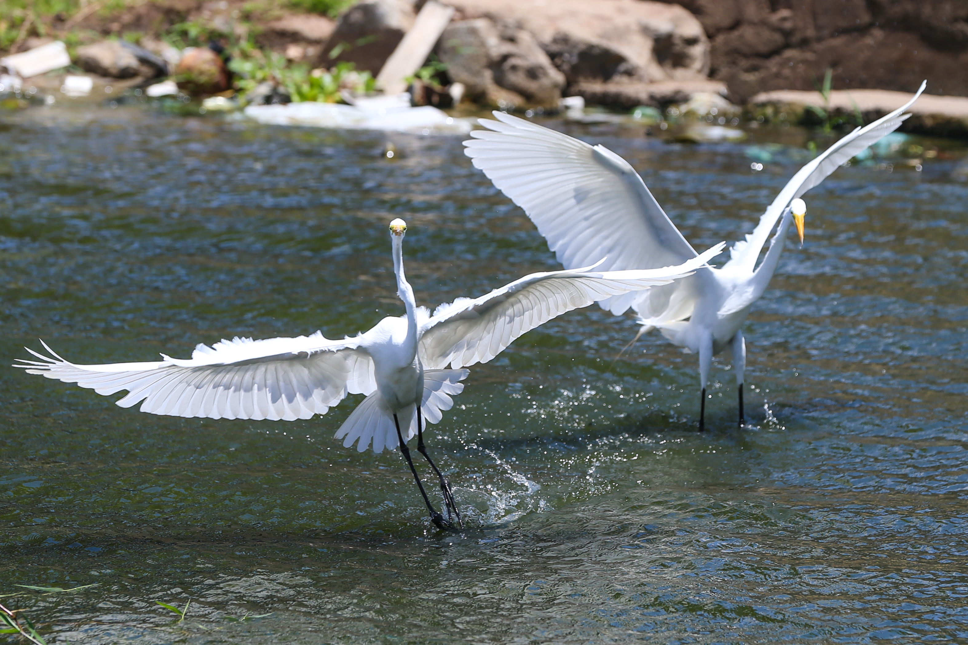 Fortaleza, 11 de outubro de 2018. Qualidade da água das lagoas de Fortaleza. Nível de balneabilidade das lagoas. Garças na Lagoa da Parangaba.